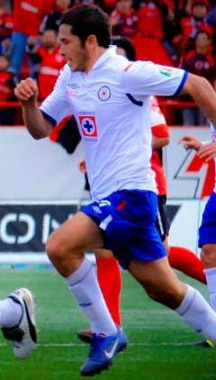 Israel Castro Mexican footballer who debuted in Pumas, currently playing for Cruz Azul.